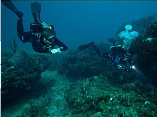 DIR Divers, Delray Ledge off of Palm Beach, Fl